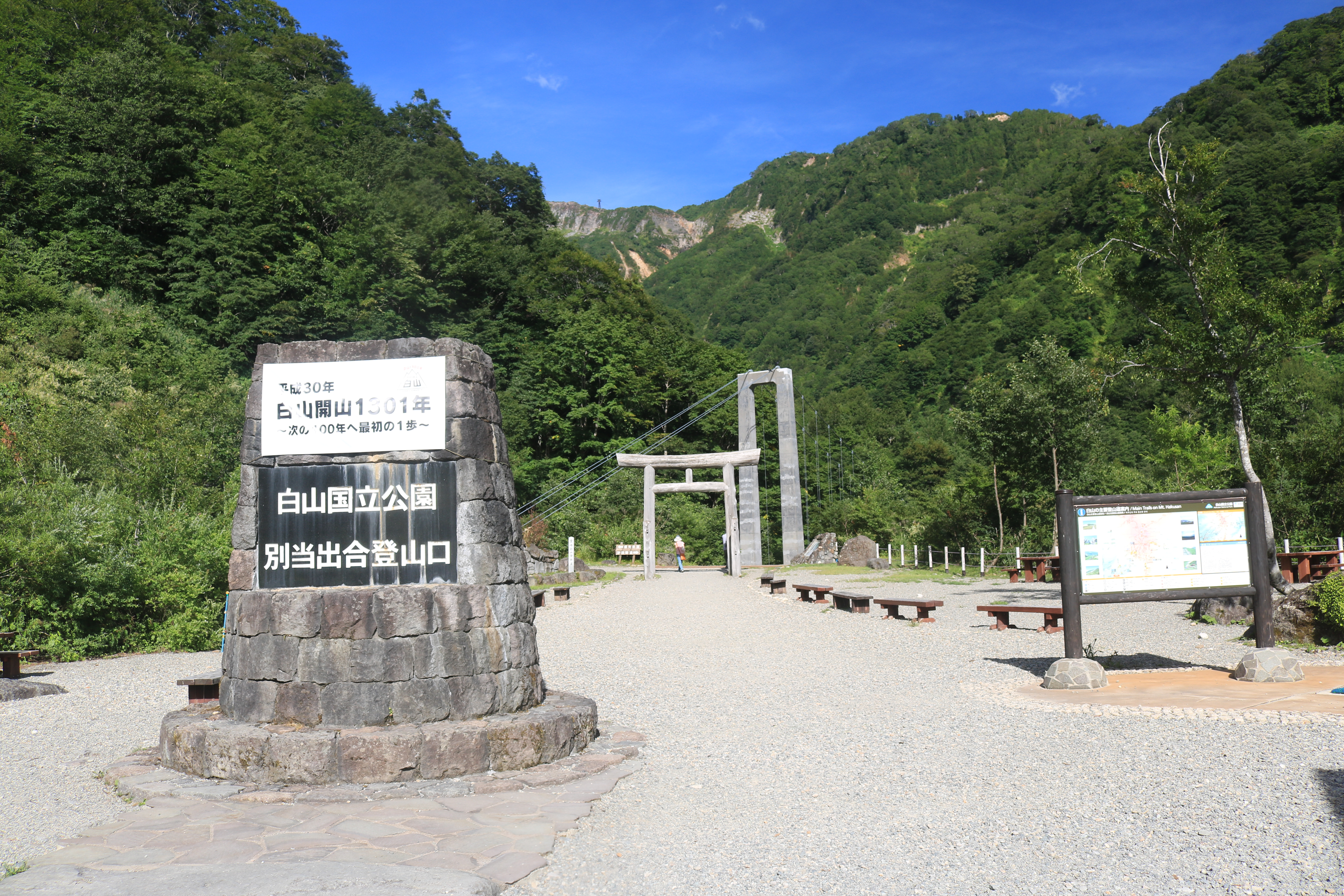 Bettodeai in Shiarmine, Hakusan, Ishikawa Prefecture, Japan.